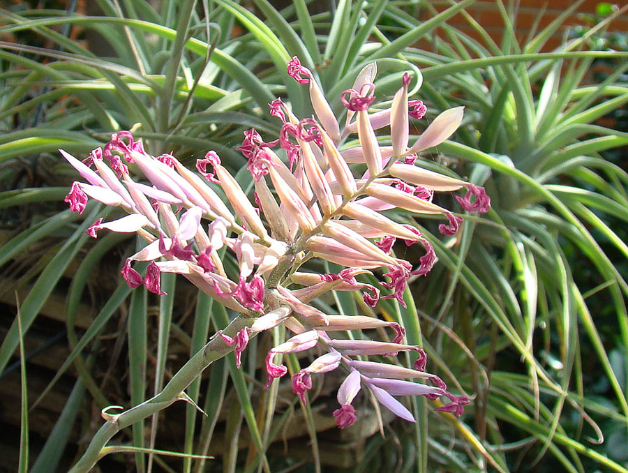 Native to northern Peru. Photo from Matthaei Gardens, Ann Arbor.